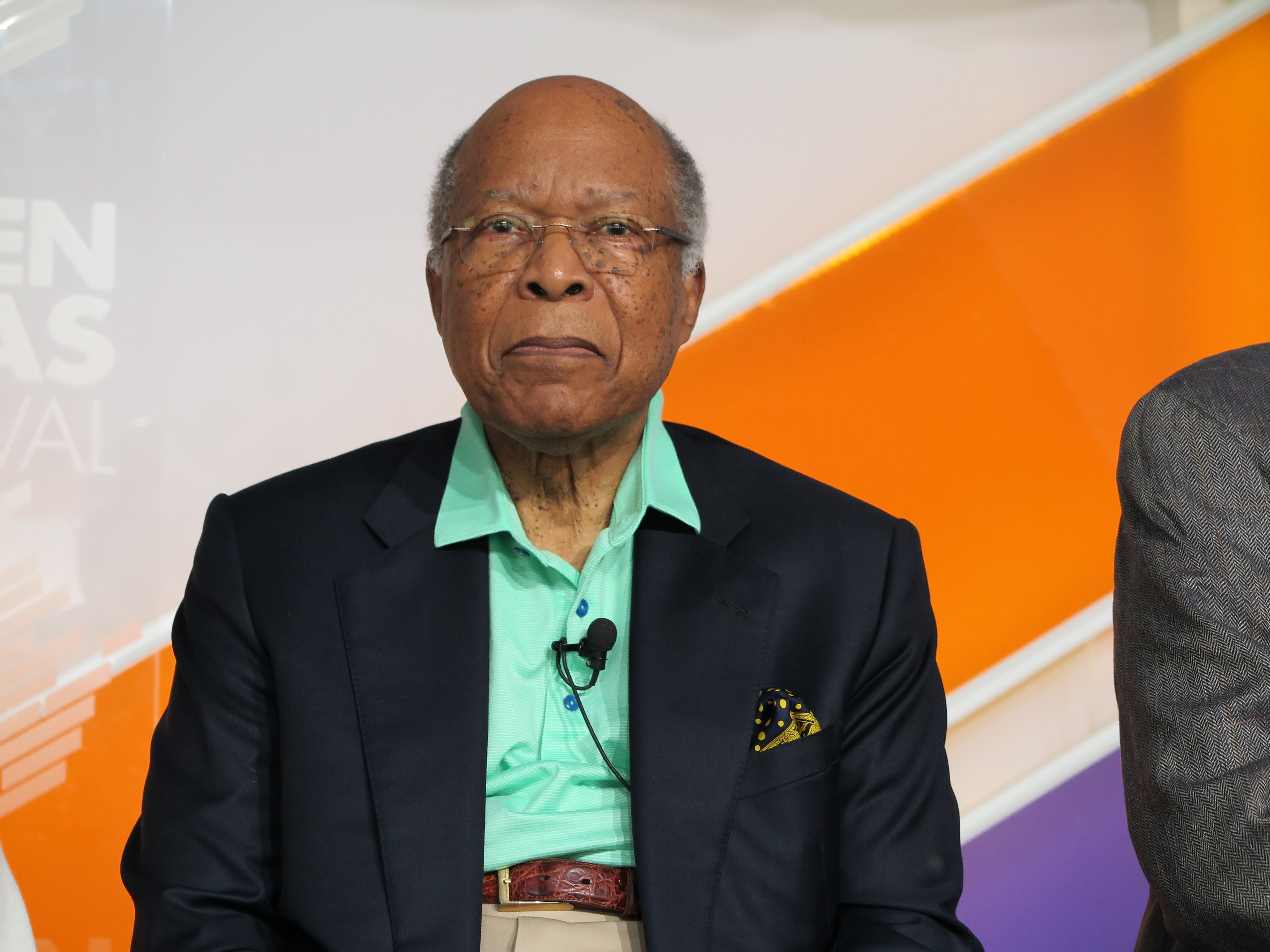 Louis Wade Sullivan at Spotlight Health Aspen Ideas Festival 2015